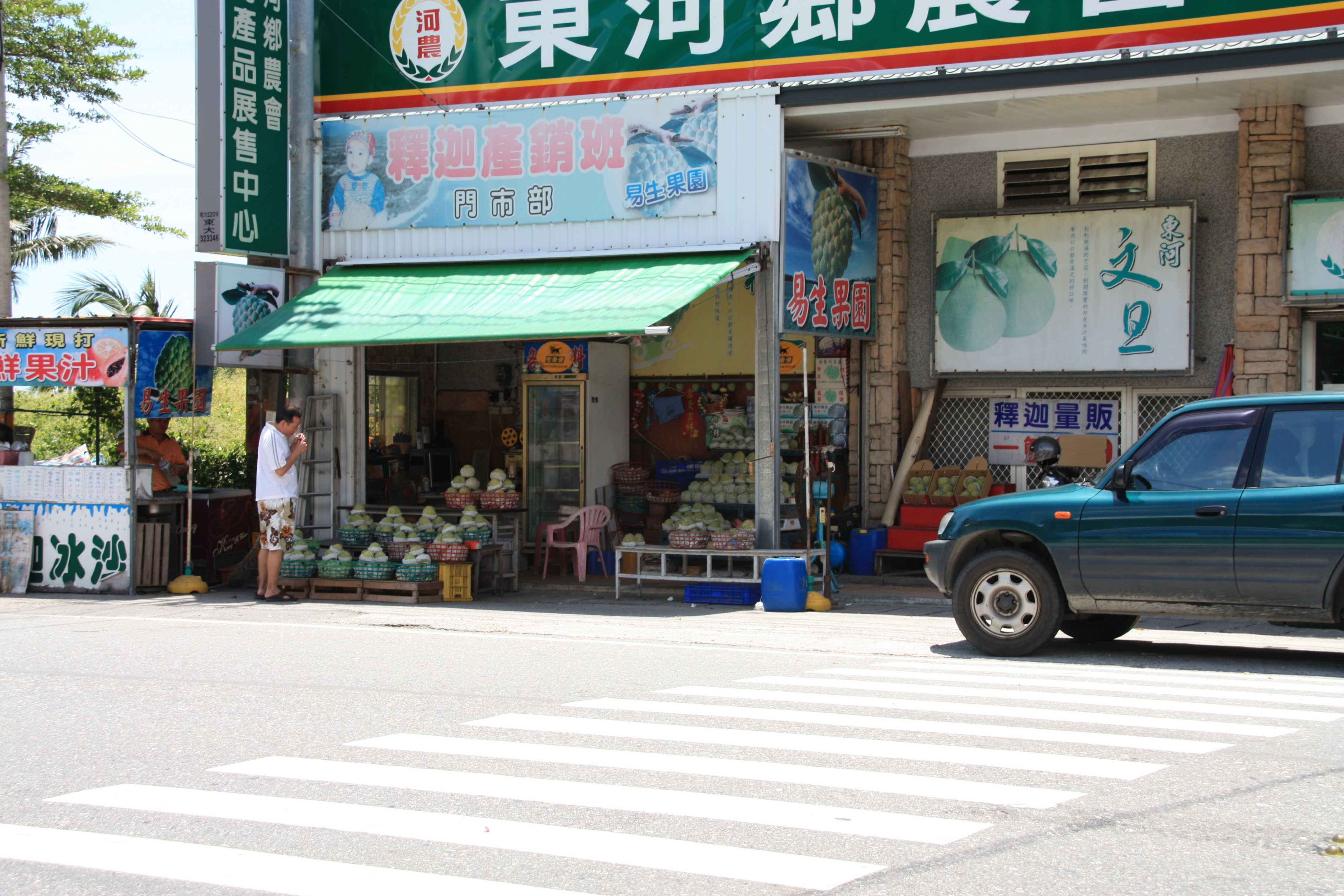 Taitung CountyDōngHé TownshipDōngHéHăiÀn Rd.